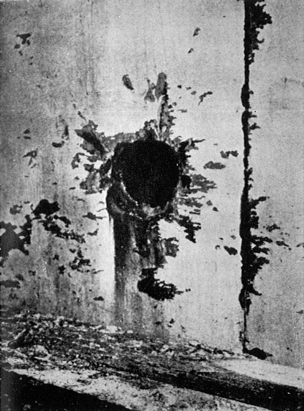 Armour-plate pierced by shell that entered Tiger's engine-room Photo: from The Fighting at Jutland 11 inch shell, numbered #13 on the damage chart